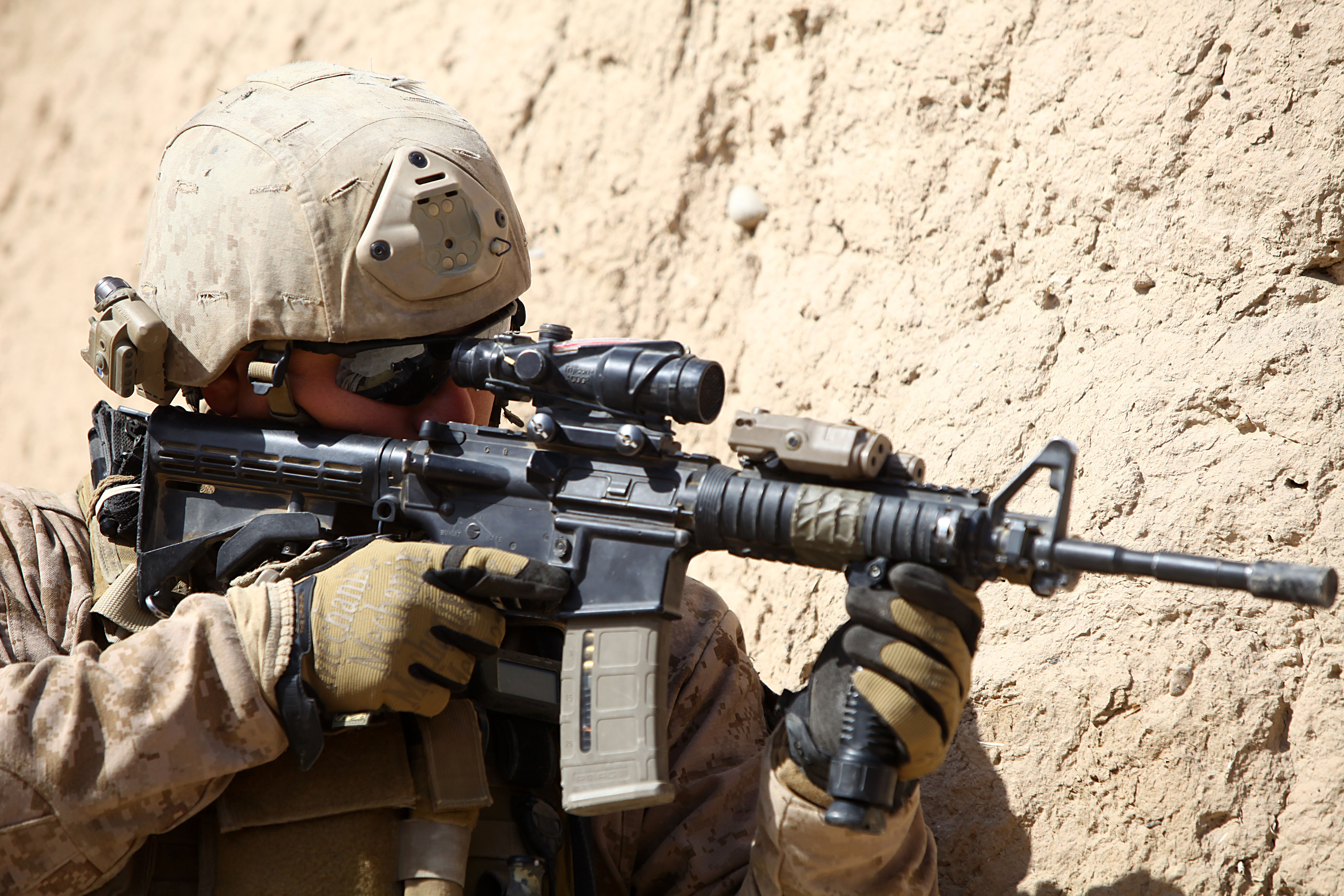 Sgt. Joel McCrory, 26, explosive ordinance disposal, from Burkburnett, Texas, takes position to cover Marines while they conduct search operations. Every building in the city was thoroughly searched during Operation Alekhine’s Gun, a heliborne and motorized raid into an area known for corruption and enemy occupation. The Marines of 2nd Battalion, 4th Marines made use of their mobilized speed and night vision capability to disrupt and confuse enemy operations in the city of Shah Karez.